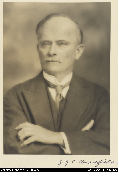 Portrait. The source of this image is the National Library of Australia.